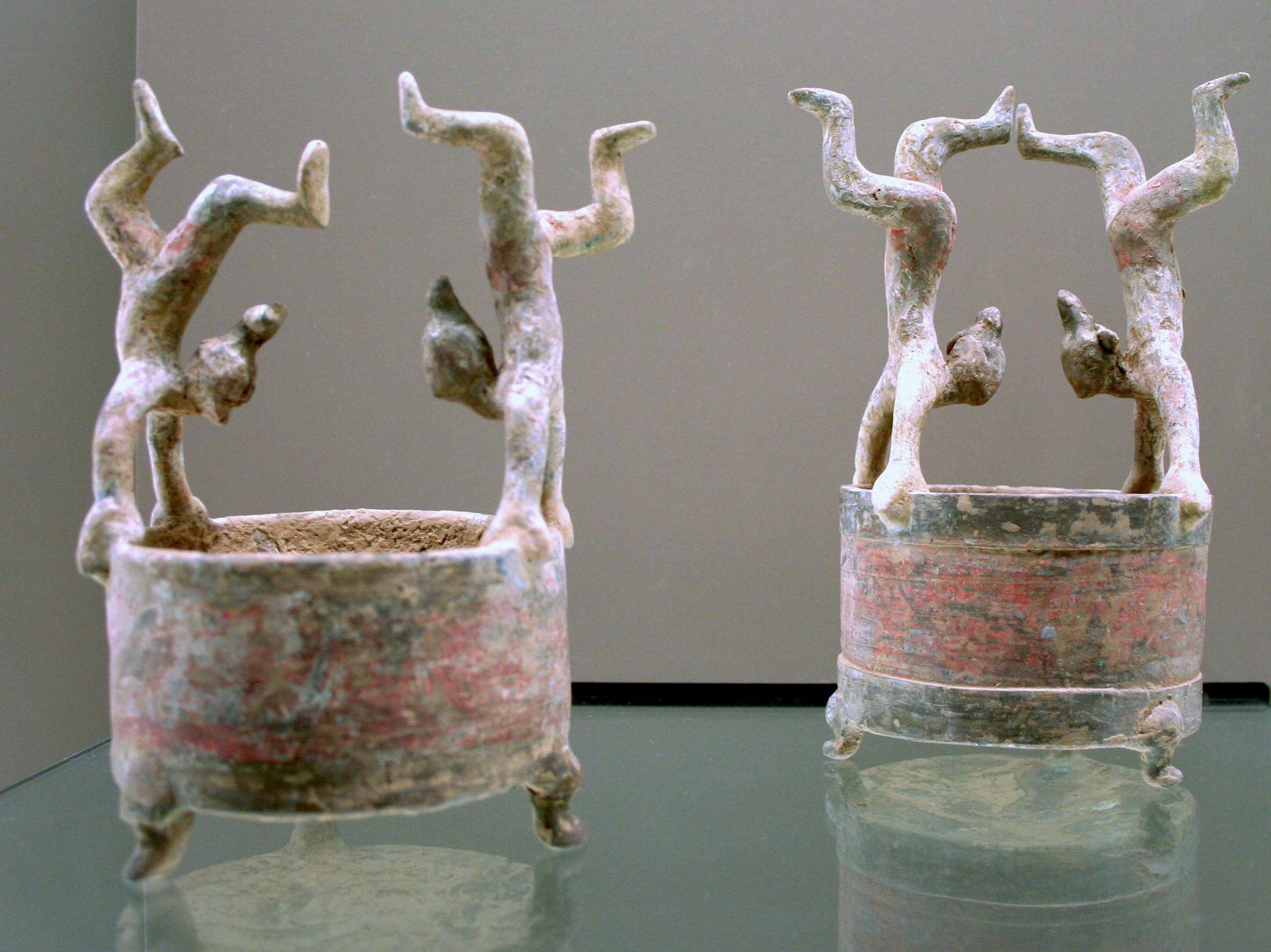 Two Vases « Lian » Decorated with Acrobats. Terra Cotta. Western Han Period (206 BC – 9 AD). Cernuschi Museum, Paris, France.